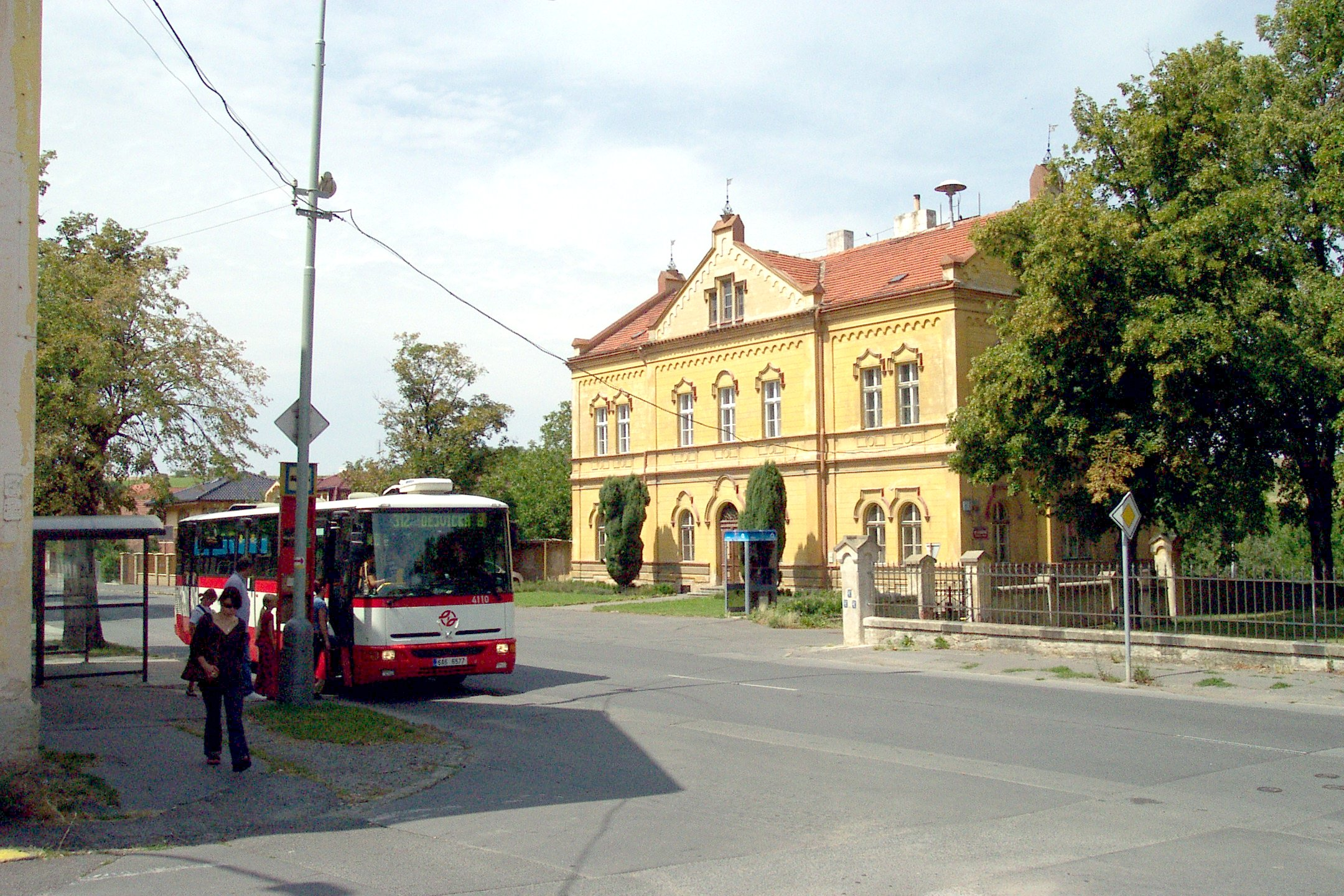 Prague-Nebušice.